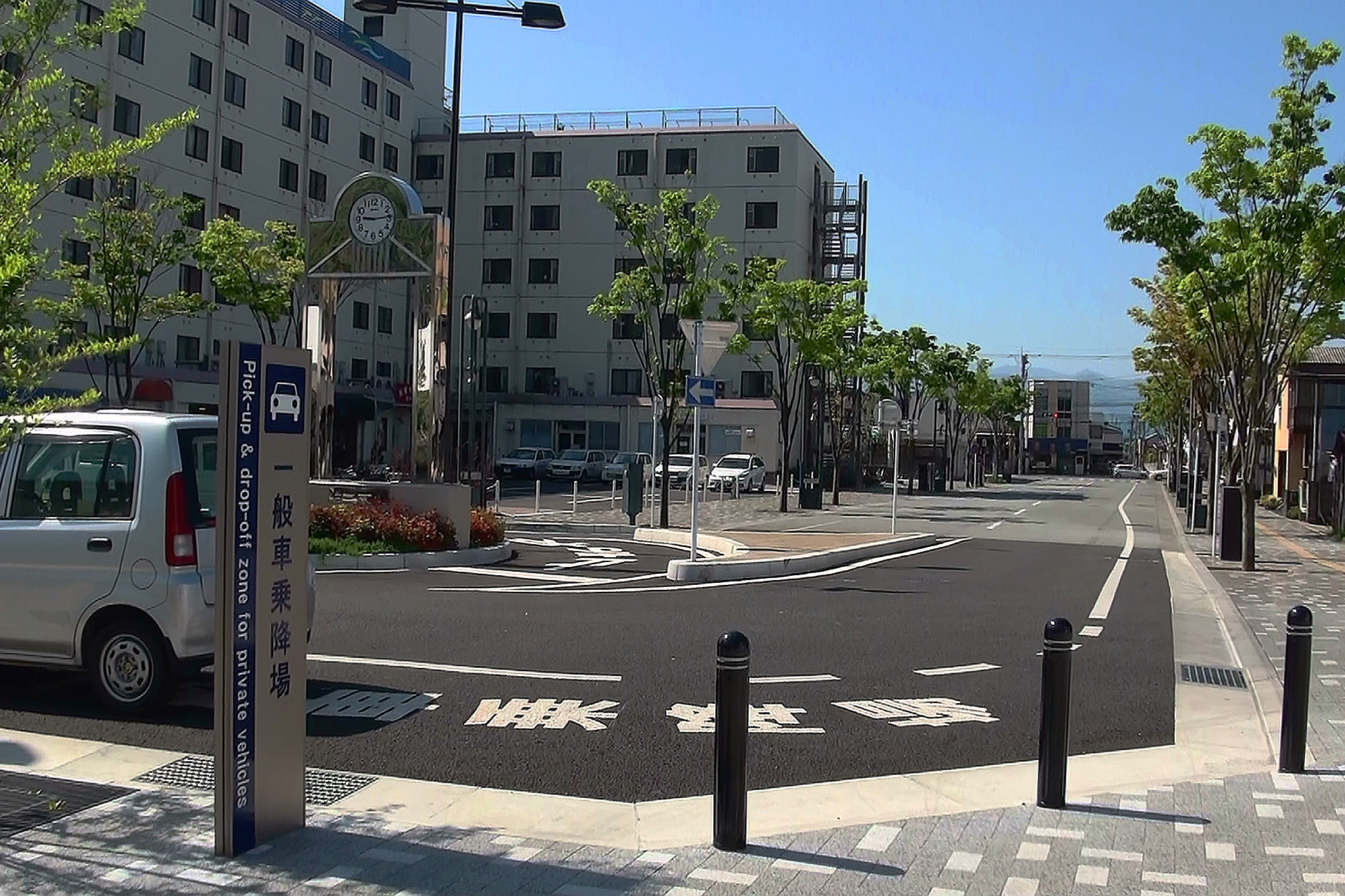 Yamanashi-Prefectural road route №102